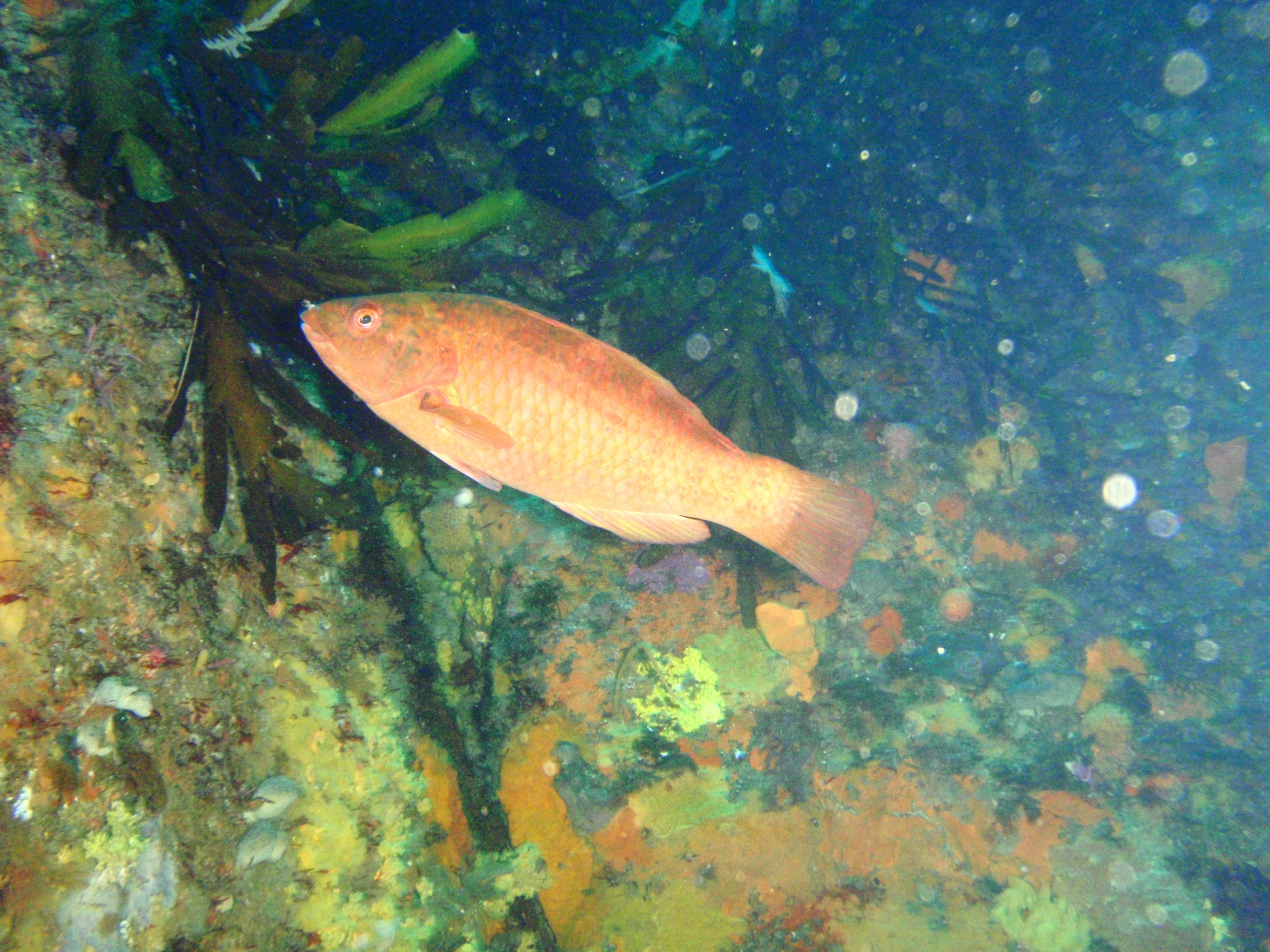 Rosy wrasse Pseudolabrus rubicundus at The Sisters, Tasman Peninsula